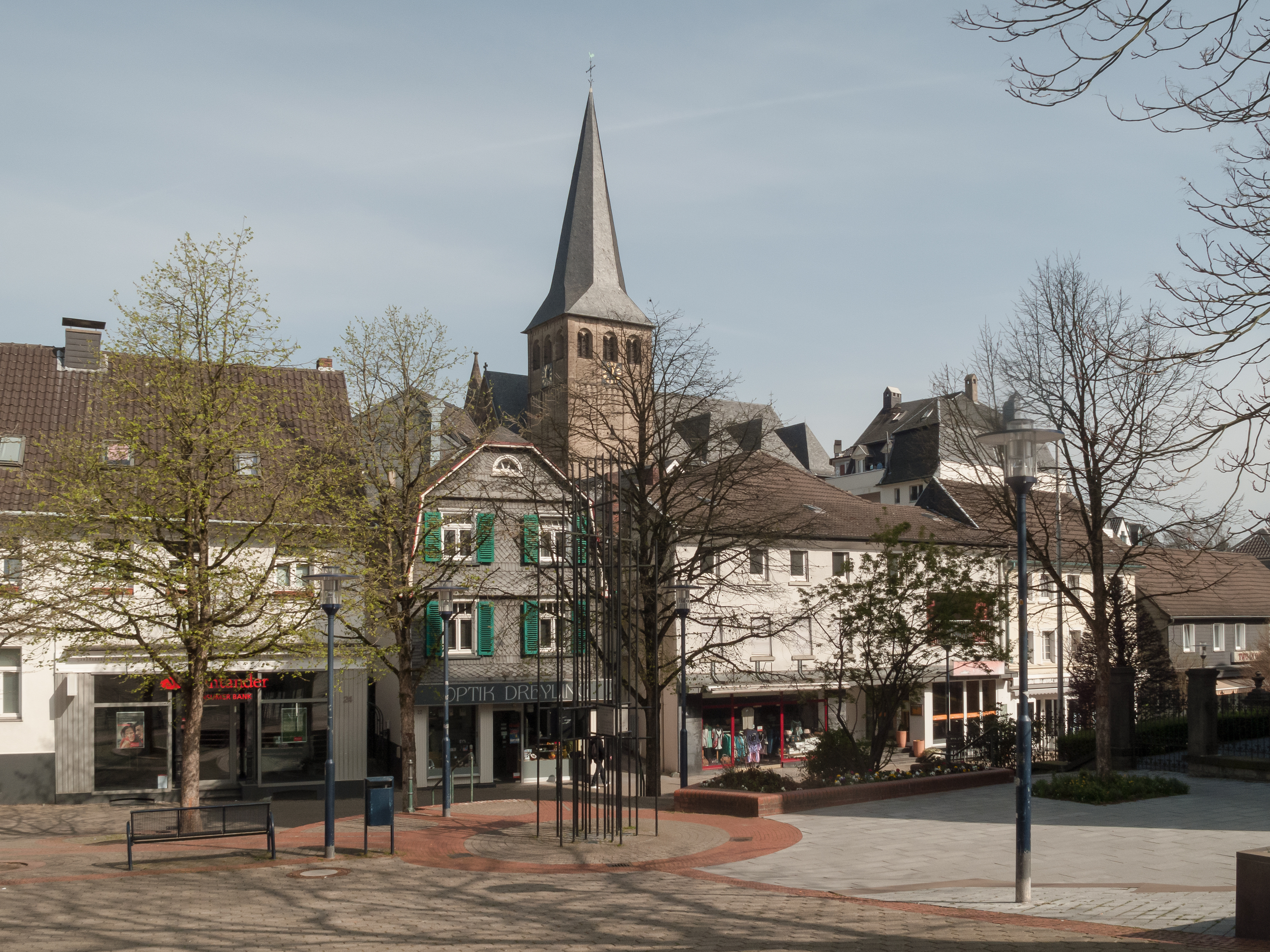 Mettmann, church tower (Sankt Lambertuskirche) in the street This is a photograph of an architectural monument.